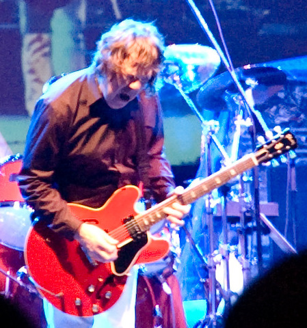 Gary Moore, cropped from Image:Gary Moore.jpg